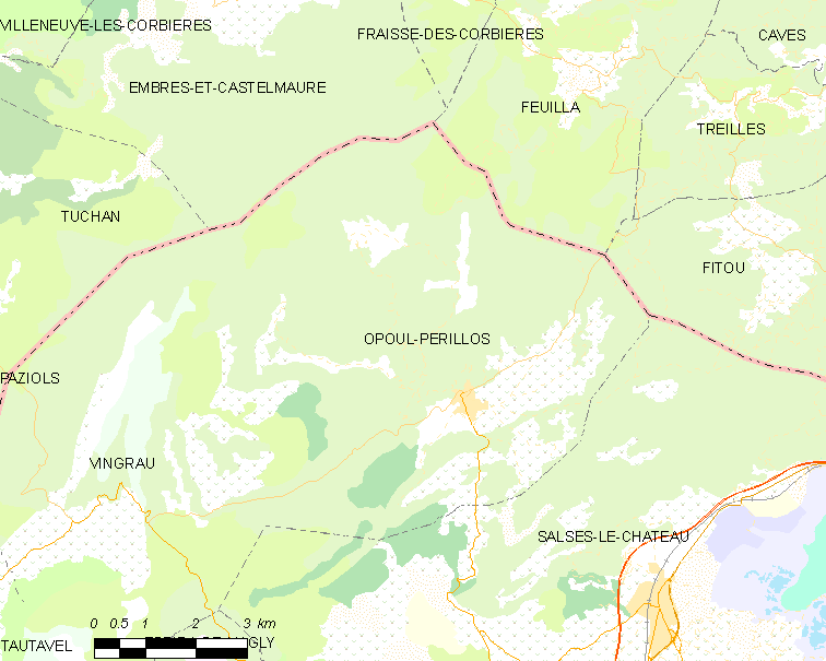 Map of French municipality